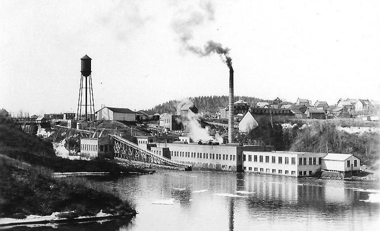 Pulp and paper mills in Jonquière, Quebec, Canada Original caption: “Paper Mills, Jonquiere, Que.” — removed caption